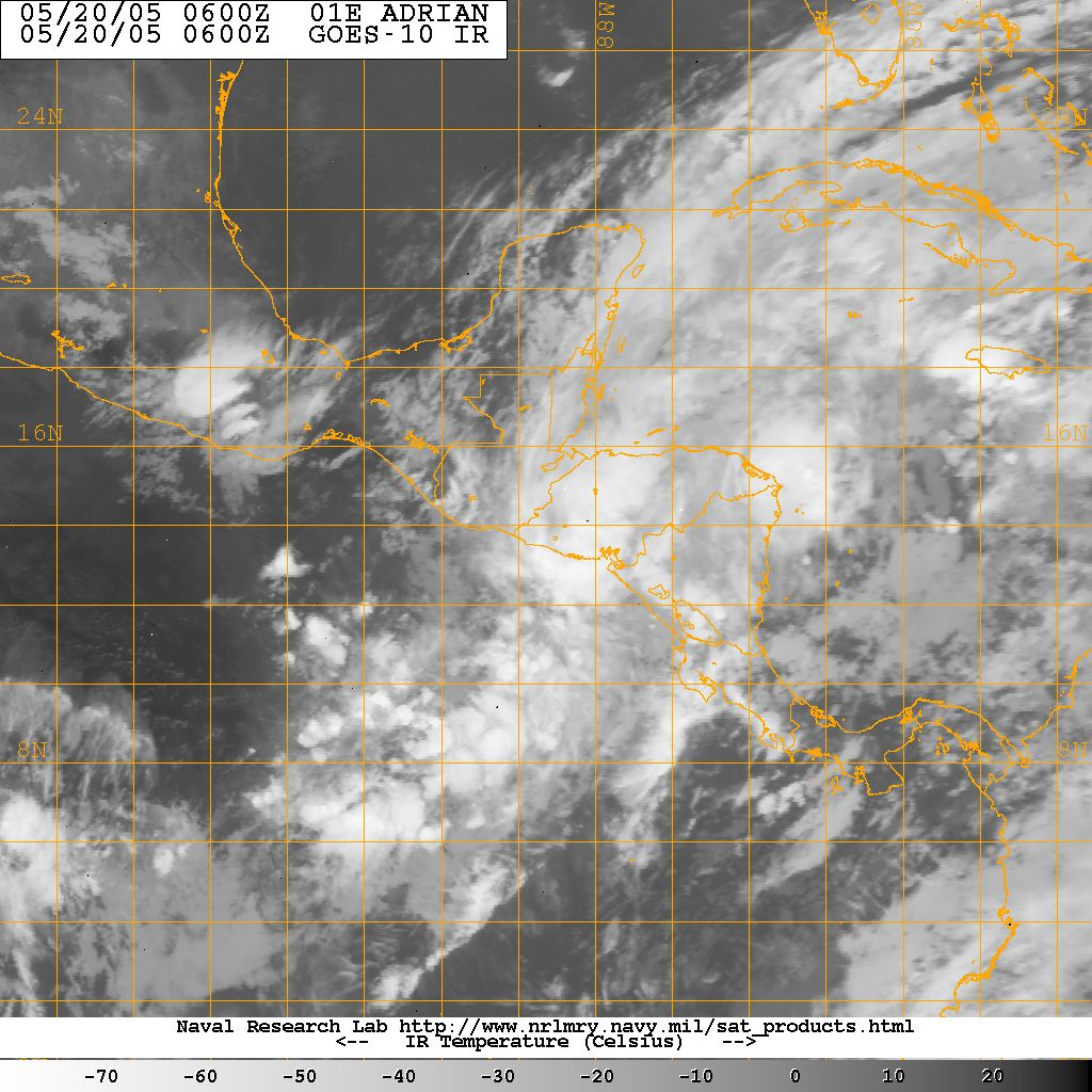 Tropical Depression Adrian on May 20, 2005 upon landfall in El Salvador.